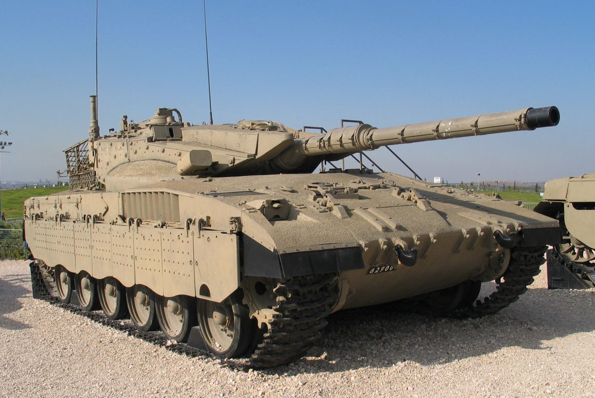 Description: Israeli Merkava Mk II MBT in Yad la-Shiryon Museum, Israel. 2005. Source: Photo by me, User:Bukvoed.